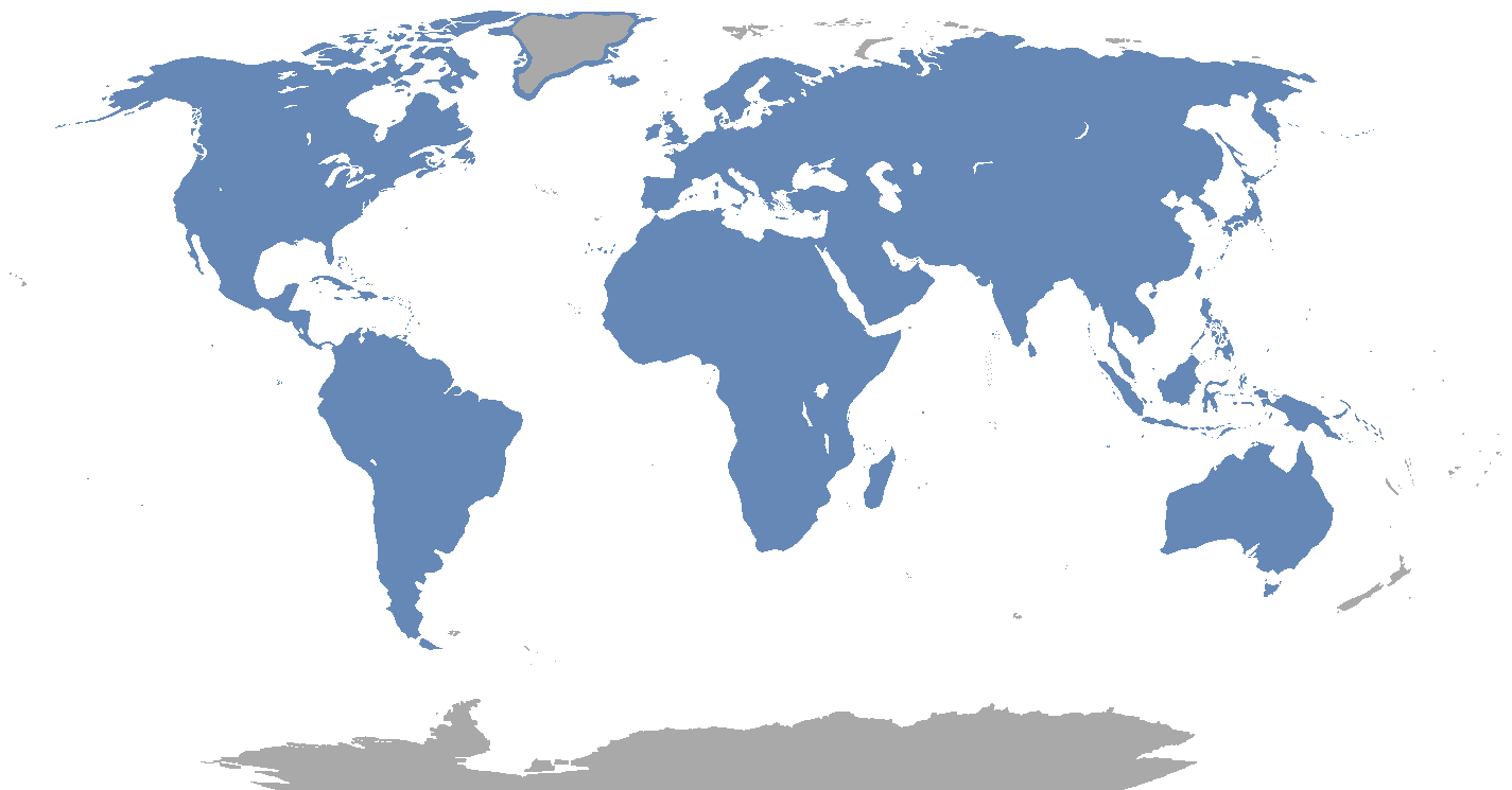 Map showing the range of the rodent order